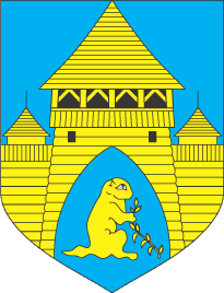 Coat of Arms Bibrka Lviv Oblast Ukraine